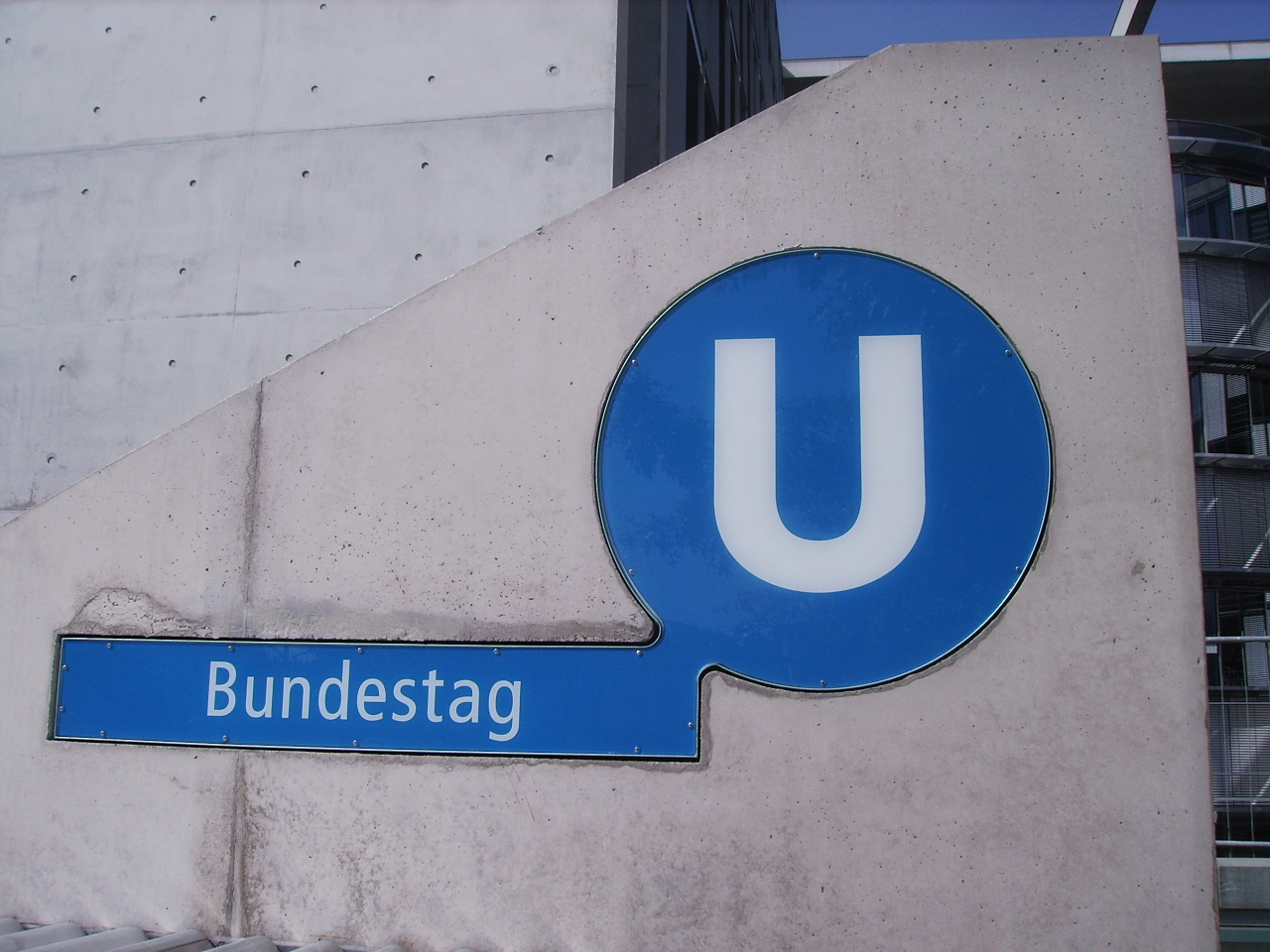 The entrance to the closed underground station Bundestag, Berlin. The construction works on this line section haven't yet been completed.